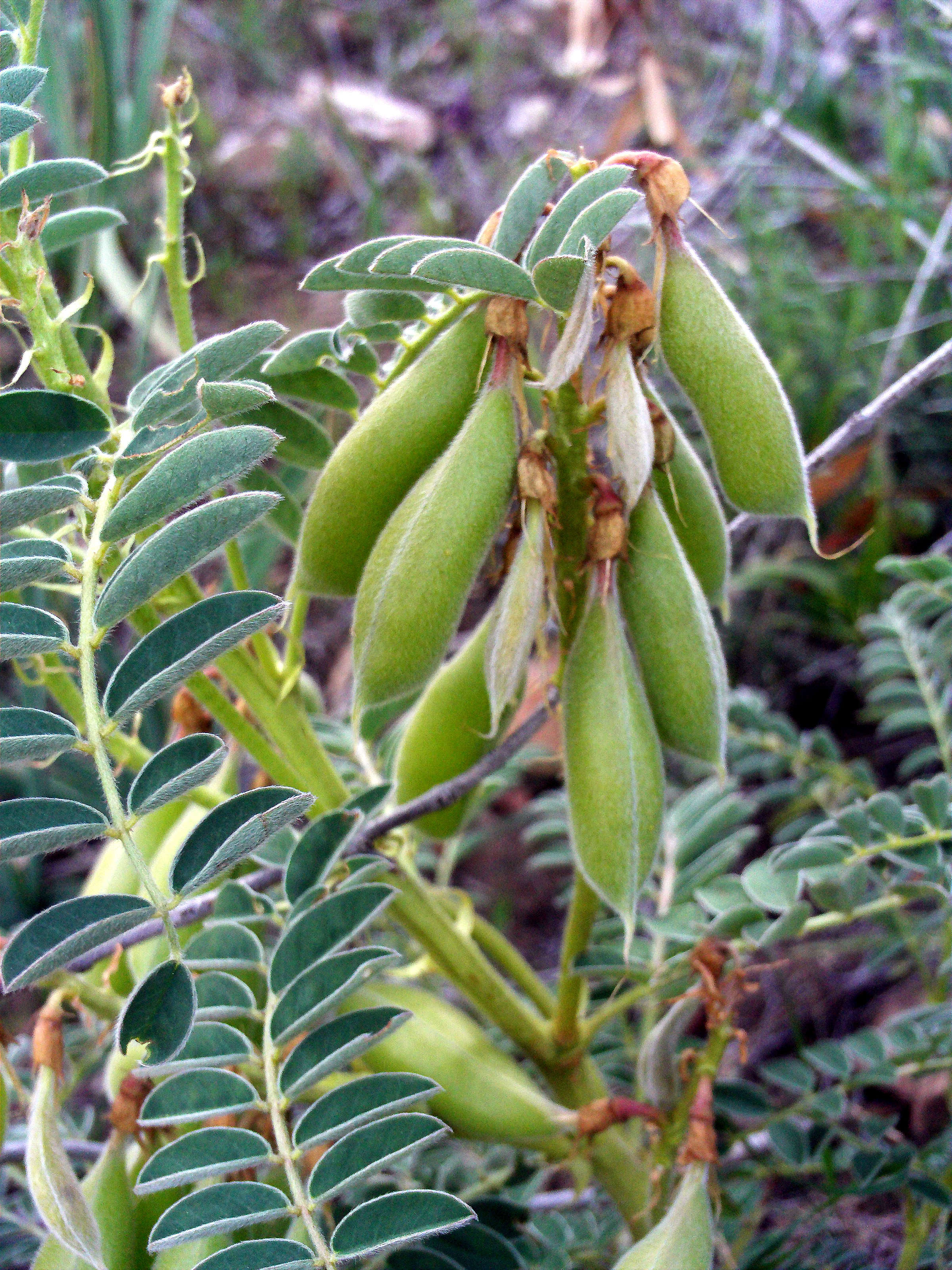 Astragalus lusitanicus fruits, Dehesa Boyal de Puertollano, Spain